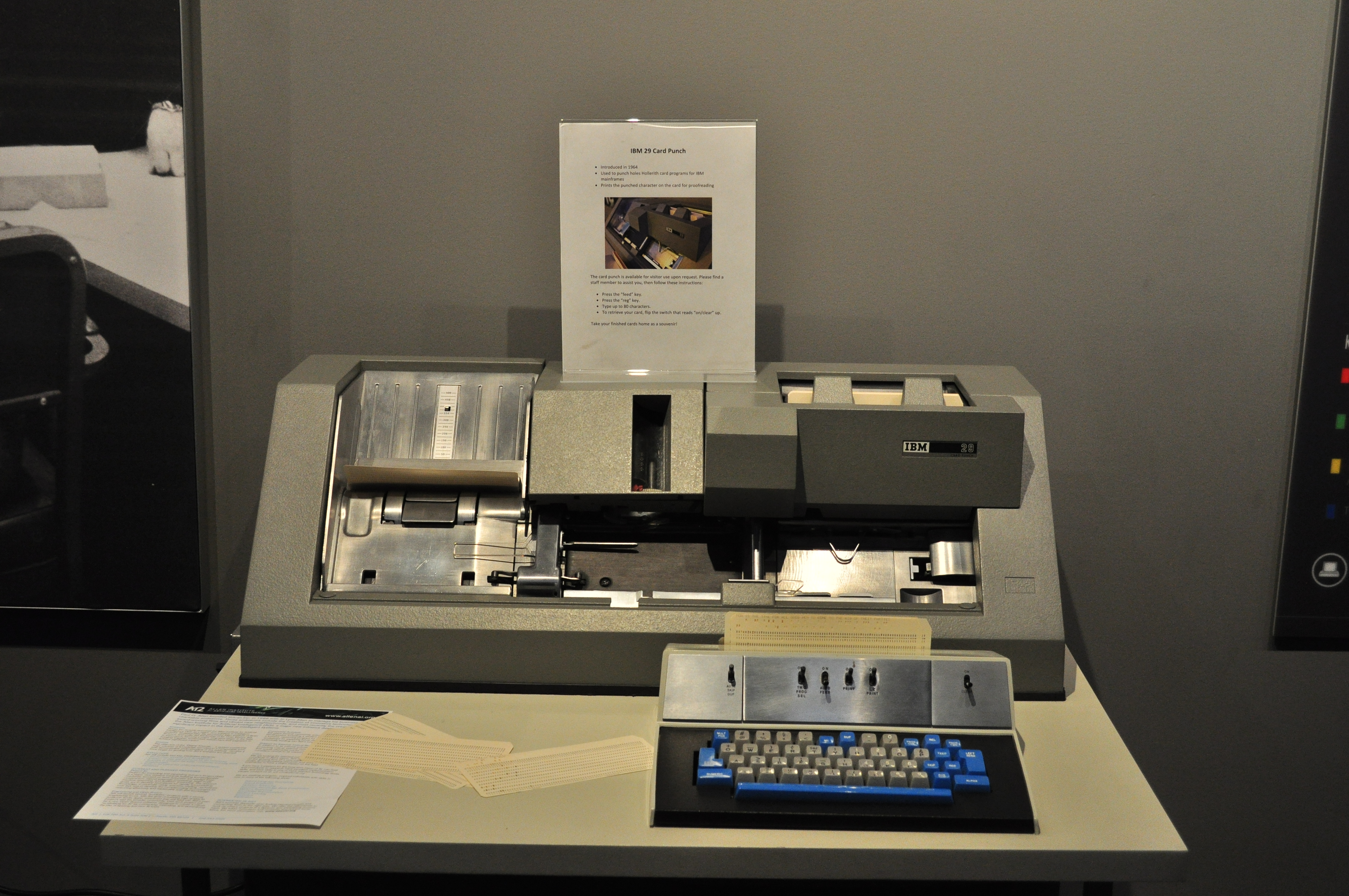 IBM 029 card punch (keypunch), Living Computer Museum, Seattle, Washington, USA.